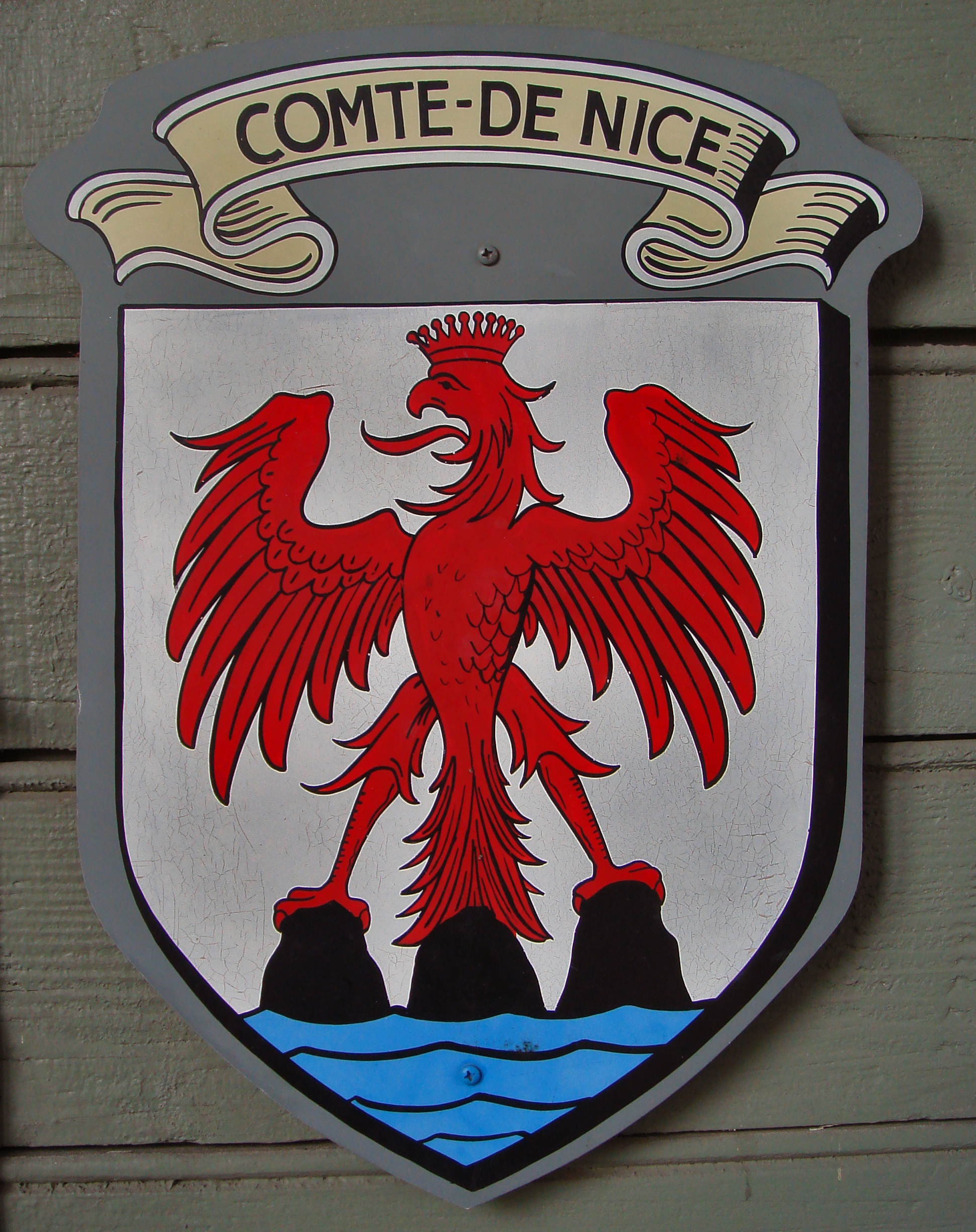 The coat of arms of Comté de Nice.